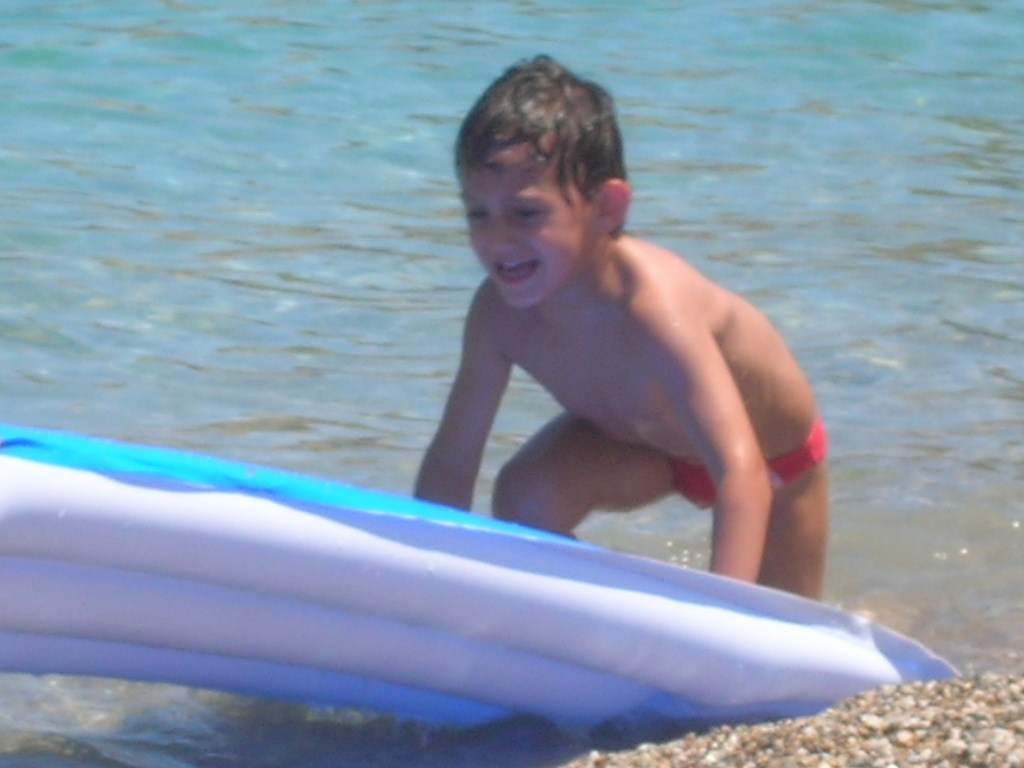 Child playing by the sea